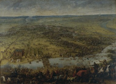 Thirty Years War (1618-1648): The battle of Diedenhofen (Thionville) in 1639, when League General Count Piccolomini defeated French troops